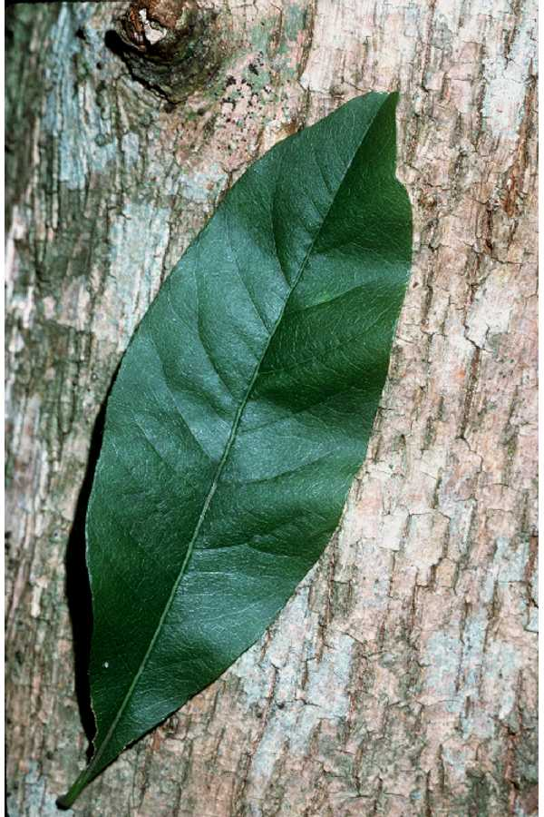 Sideroxylon lycioides L. buckthorn bully